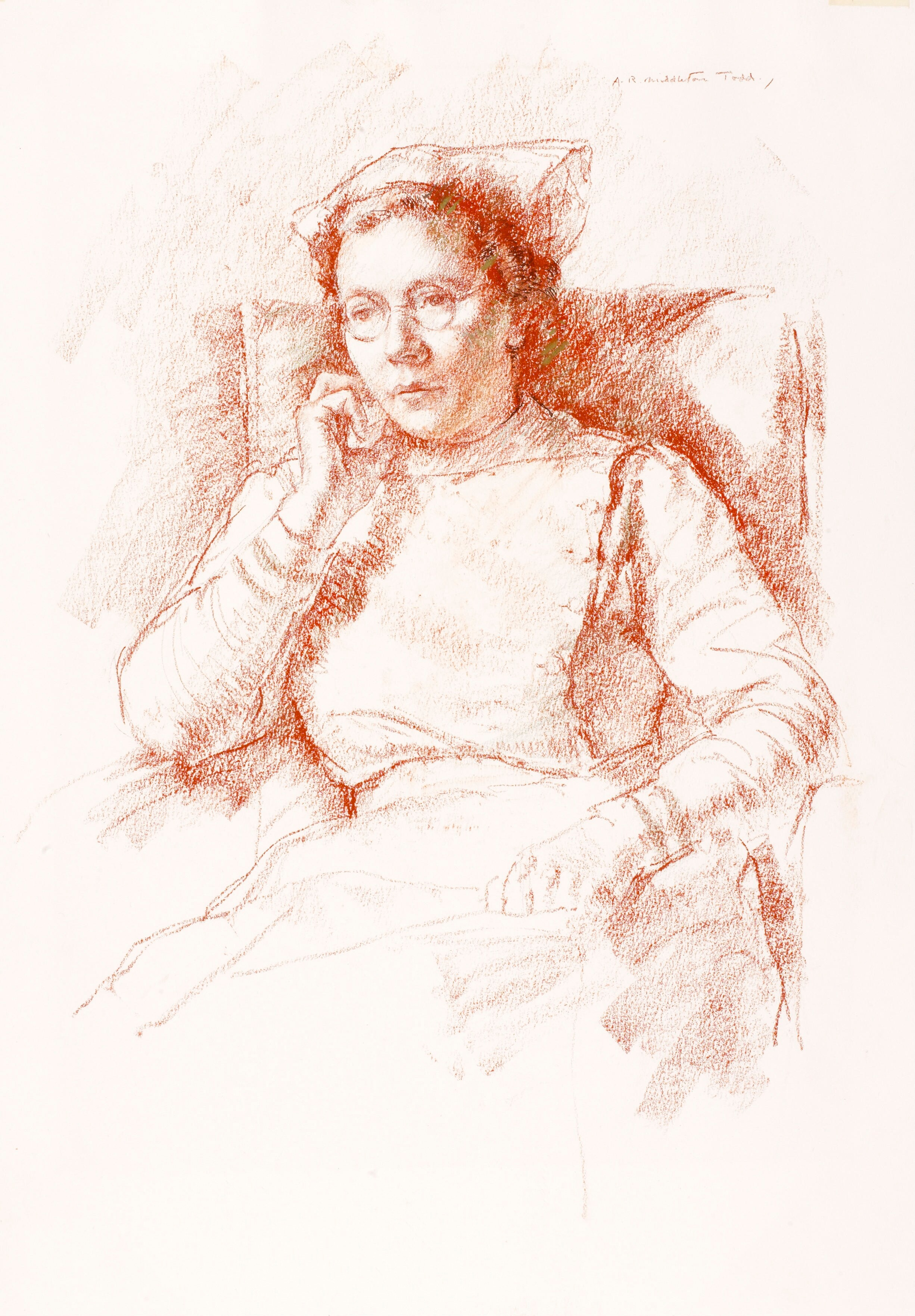 A half-length portrait of Marjorie Bayes wearing her nurses uniform and seated in a chair